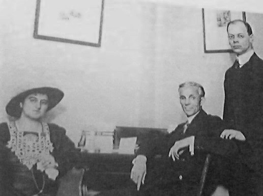 Rosika Schwimmer, Henry Ford and Louis P. Lochner aboard the Peace Ship Oskar II which sailed from the United States to Europe in 1915 in an attempt to end World War I